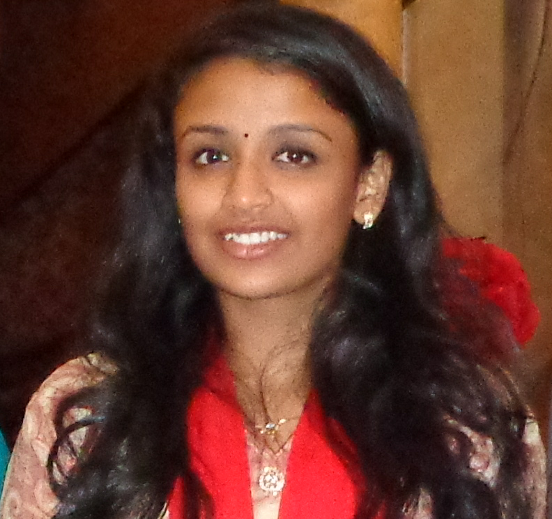 She won second prize super singer competition in Vijay TV